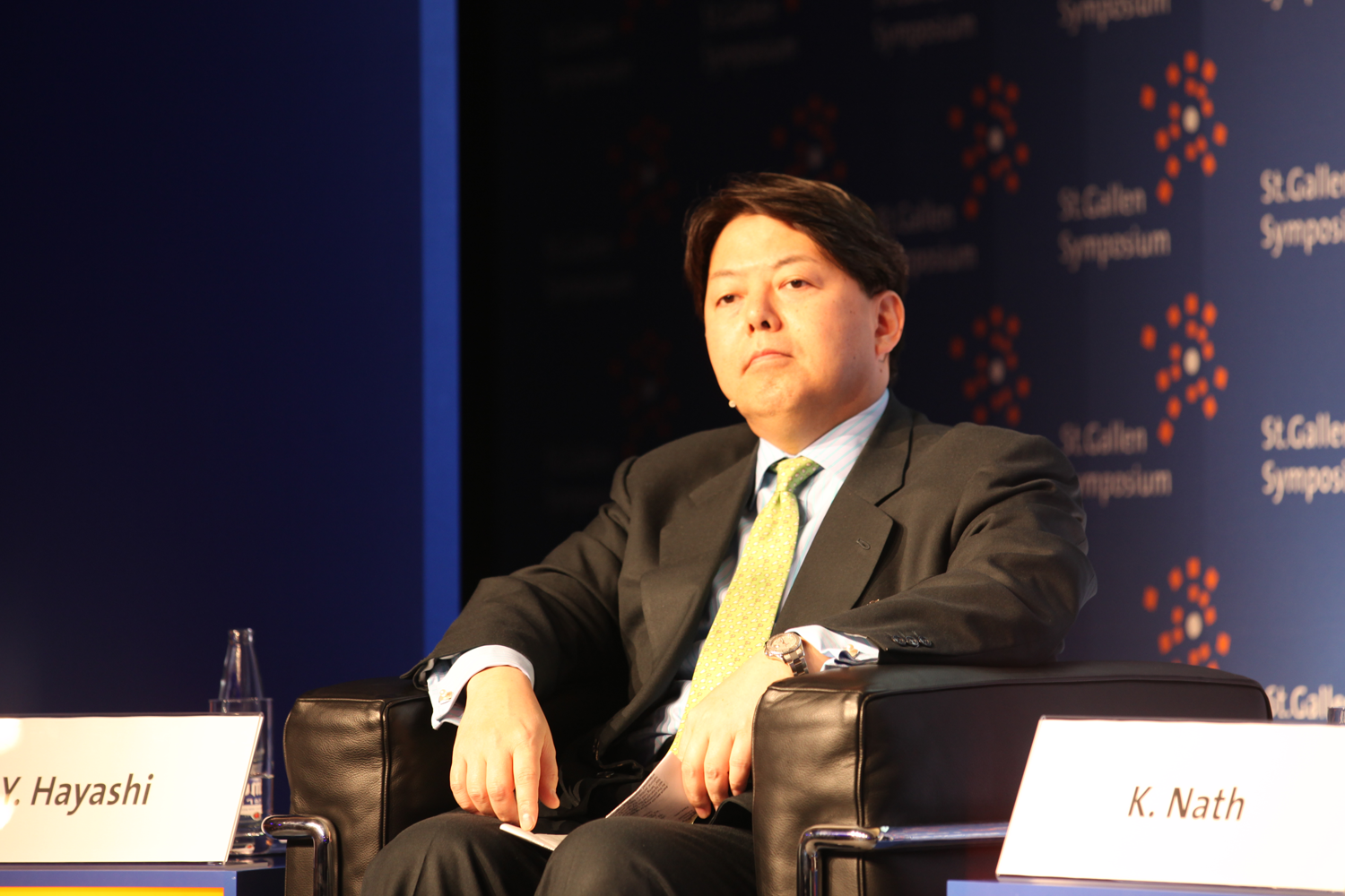 Yoshimasa Hayashi in May 2011 at the 41. St. Gallen Symposium at the University of St. Gallen